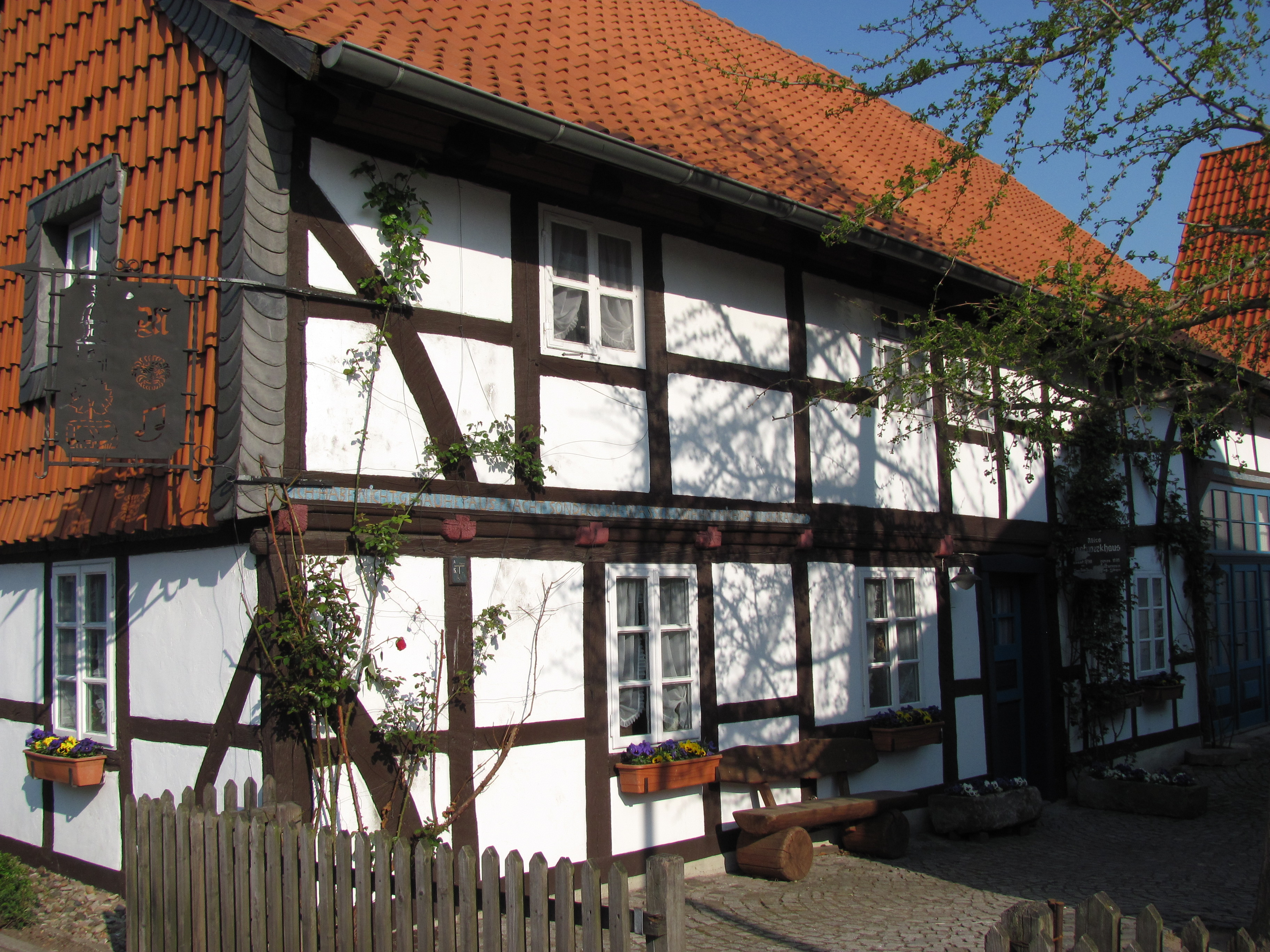 Cultural centre "Das Alte Fachwerkhaus", Bad Salzdetfurth-Groß Düngen, Lower Saxony, Germany